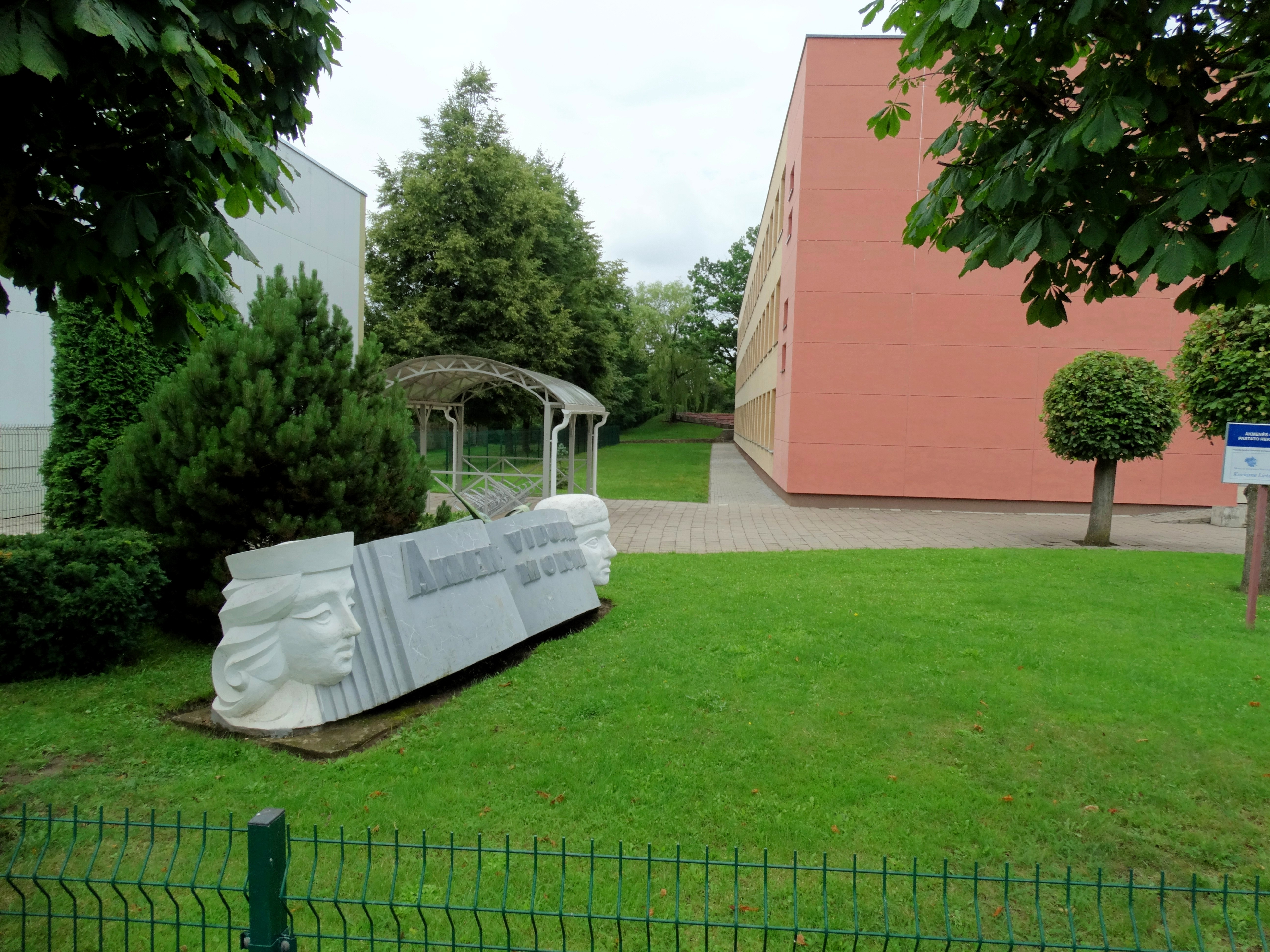 Gymnasium, Akmenė, Lithuania